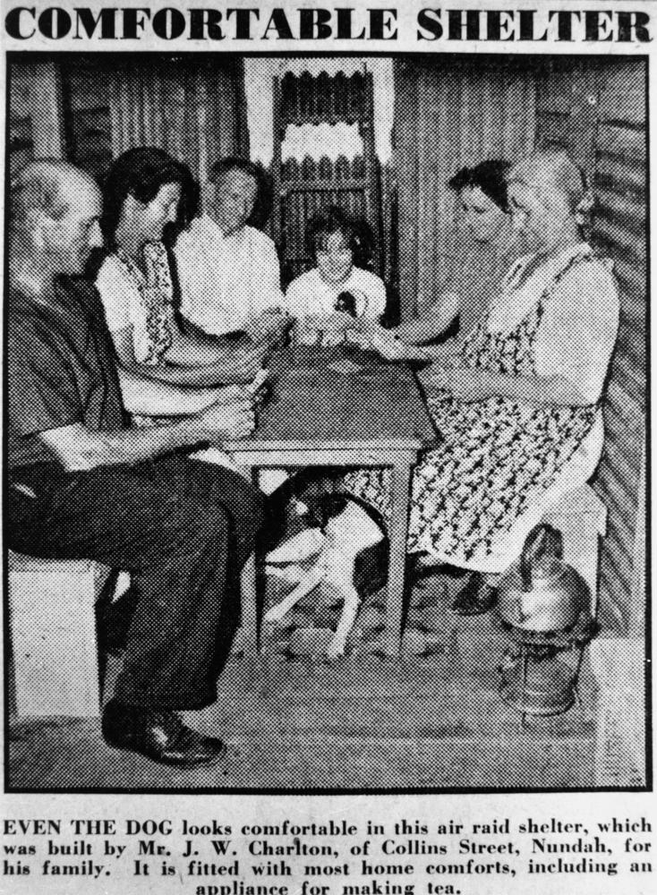 Comfortable air raid shelter, Nundah, ca. 1942 Even the dog looks comfortable in this air raid shelter, which was built by Mr J. W. Charlton of Collins Street Nundah. It is fitted with most home comforts, including an appliance for making tea. (Description supplied with photograph).